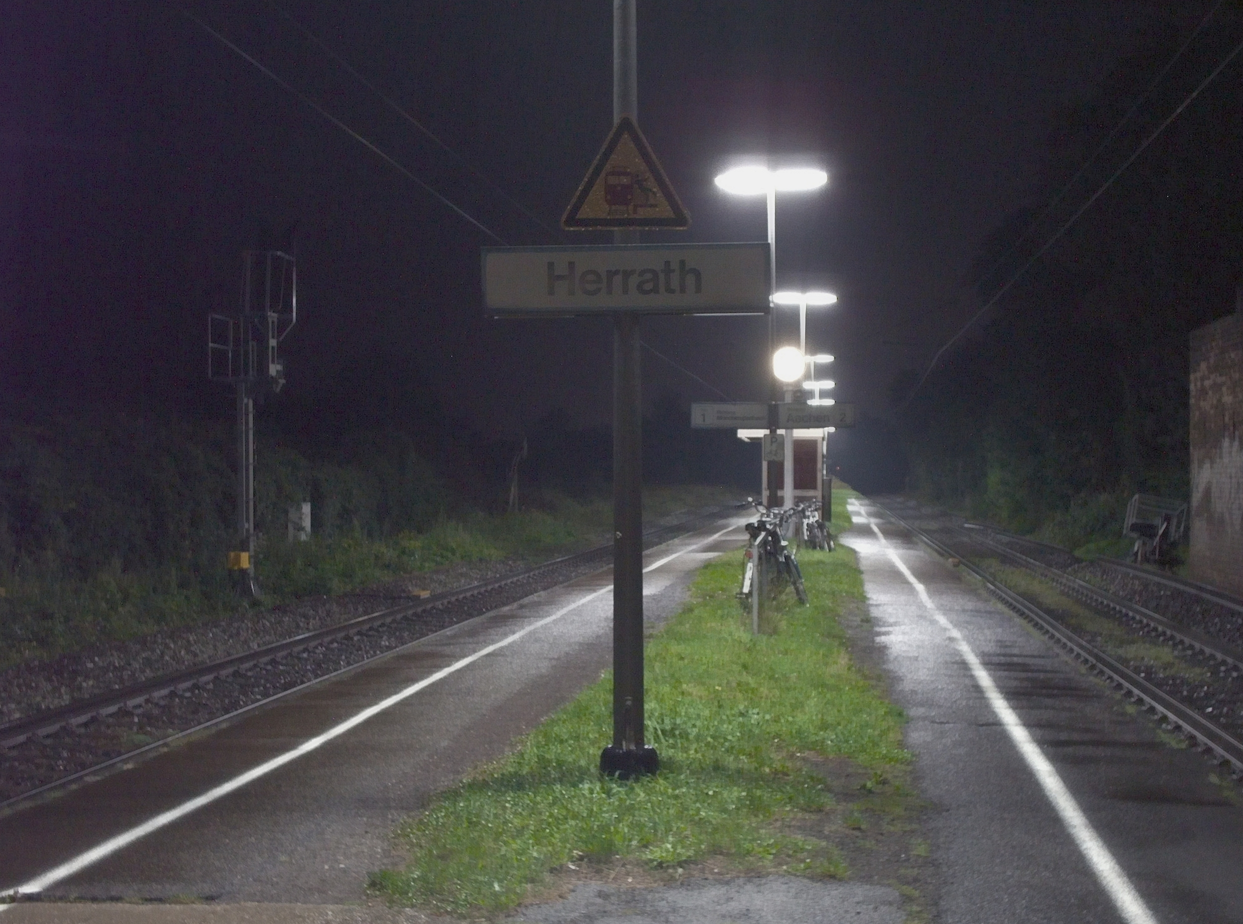 Herrath station, Mönchengladbach, Germany check usage